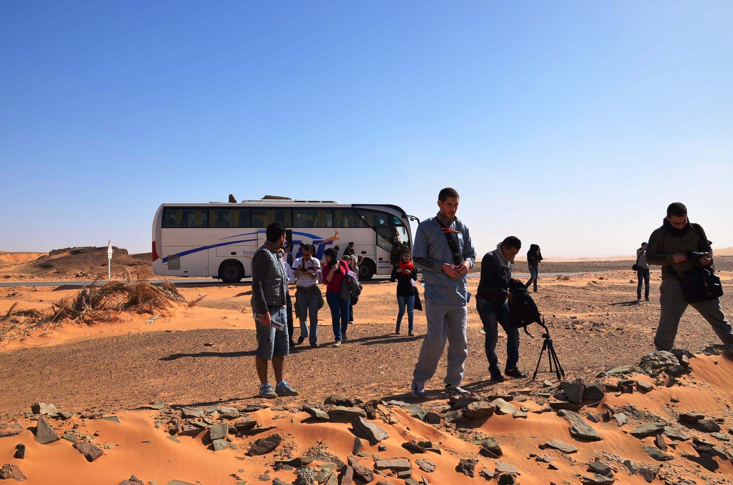 This is an image with the theme "Africa on the Move or Transport" from: Algeria